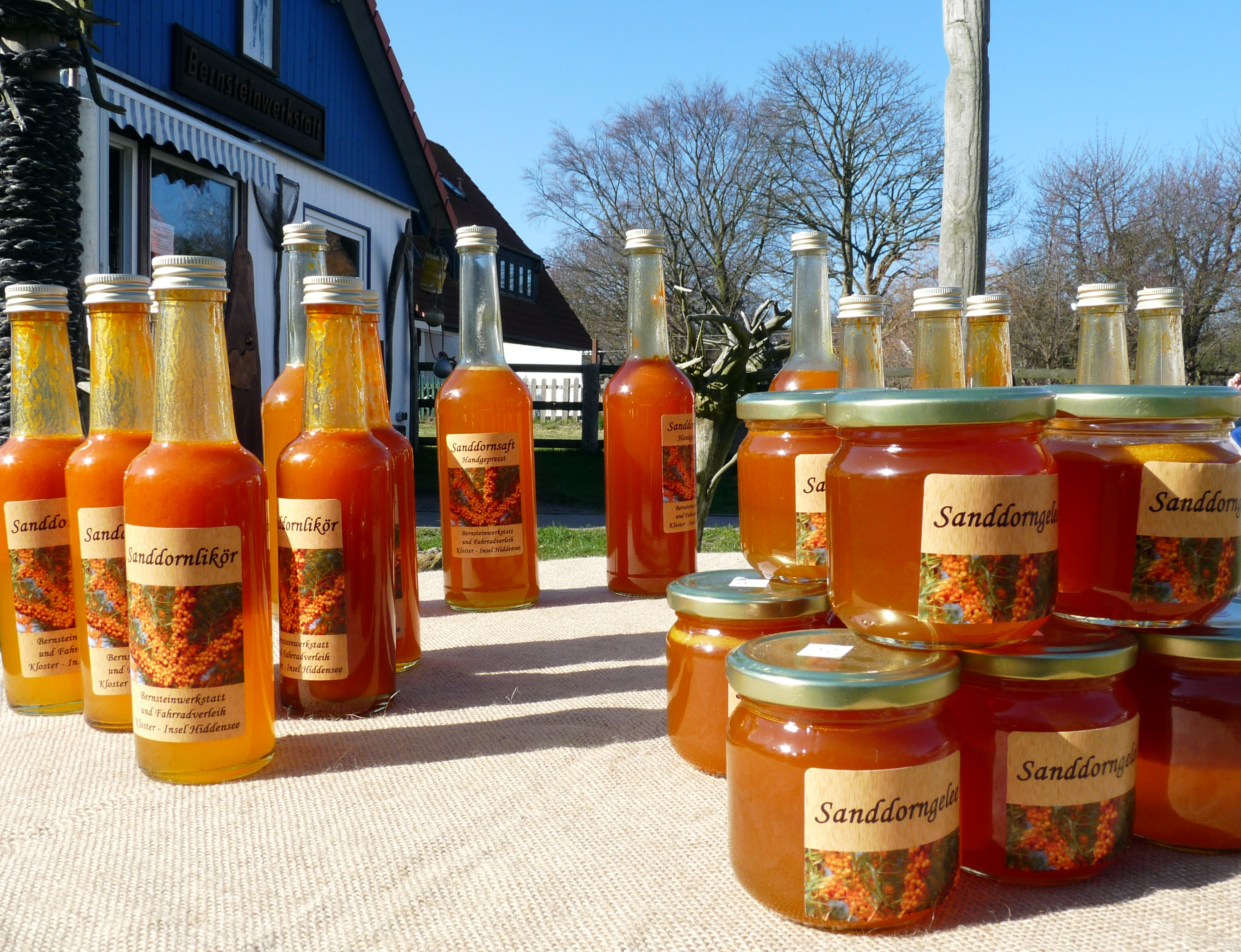 Liquor, jelly, juice made from sea-buckthorn(Hiddensee island, Germany)